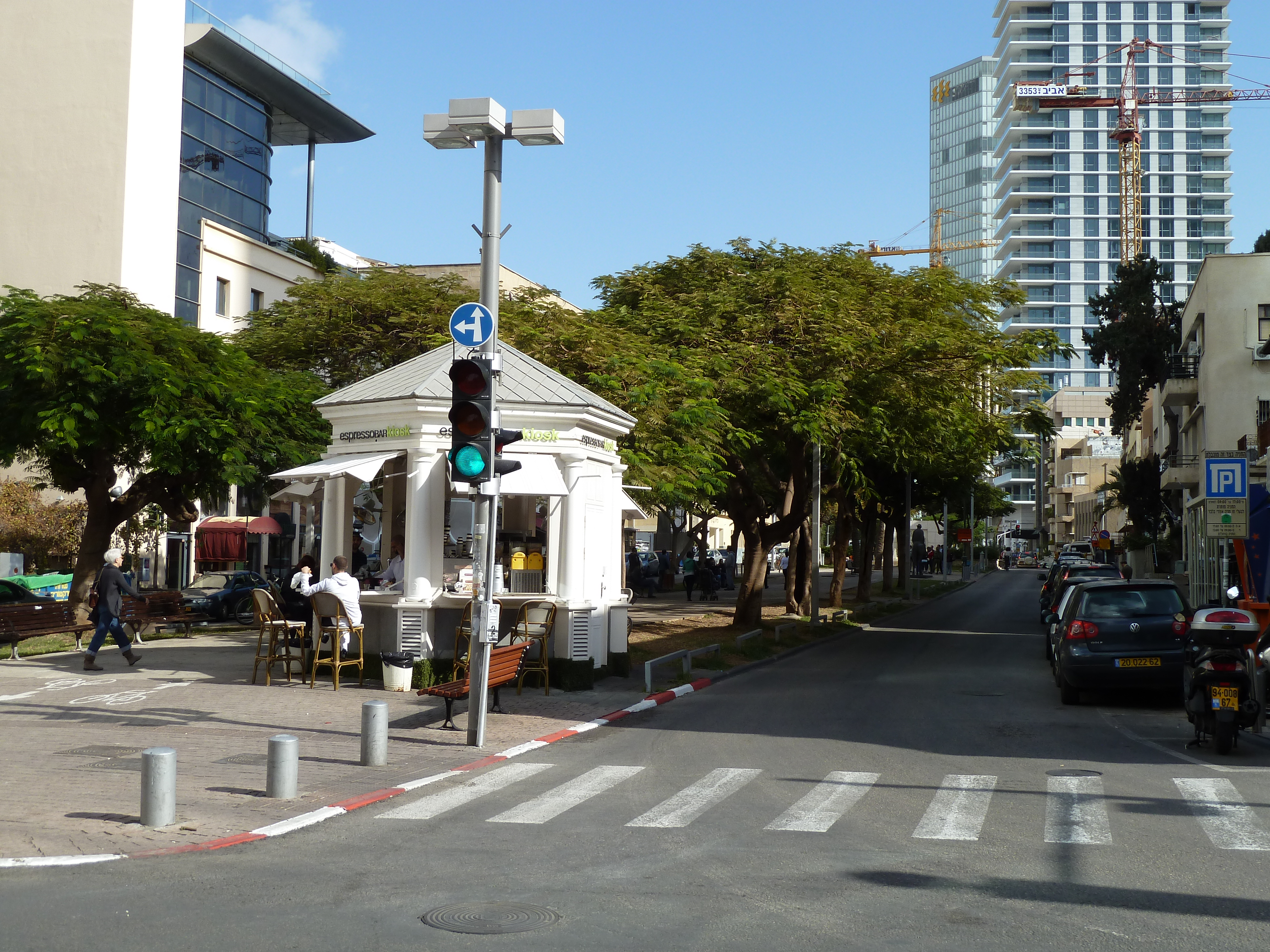 Rothschild Boulevard kiosk, Tel Aviv-Yaffo